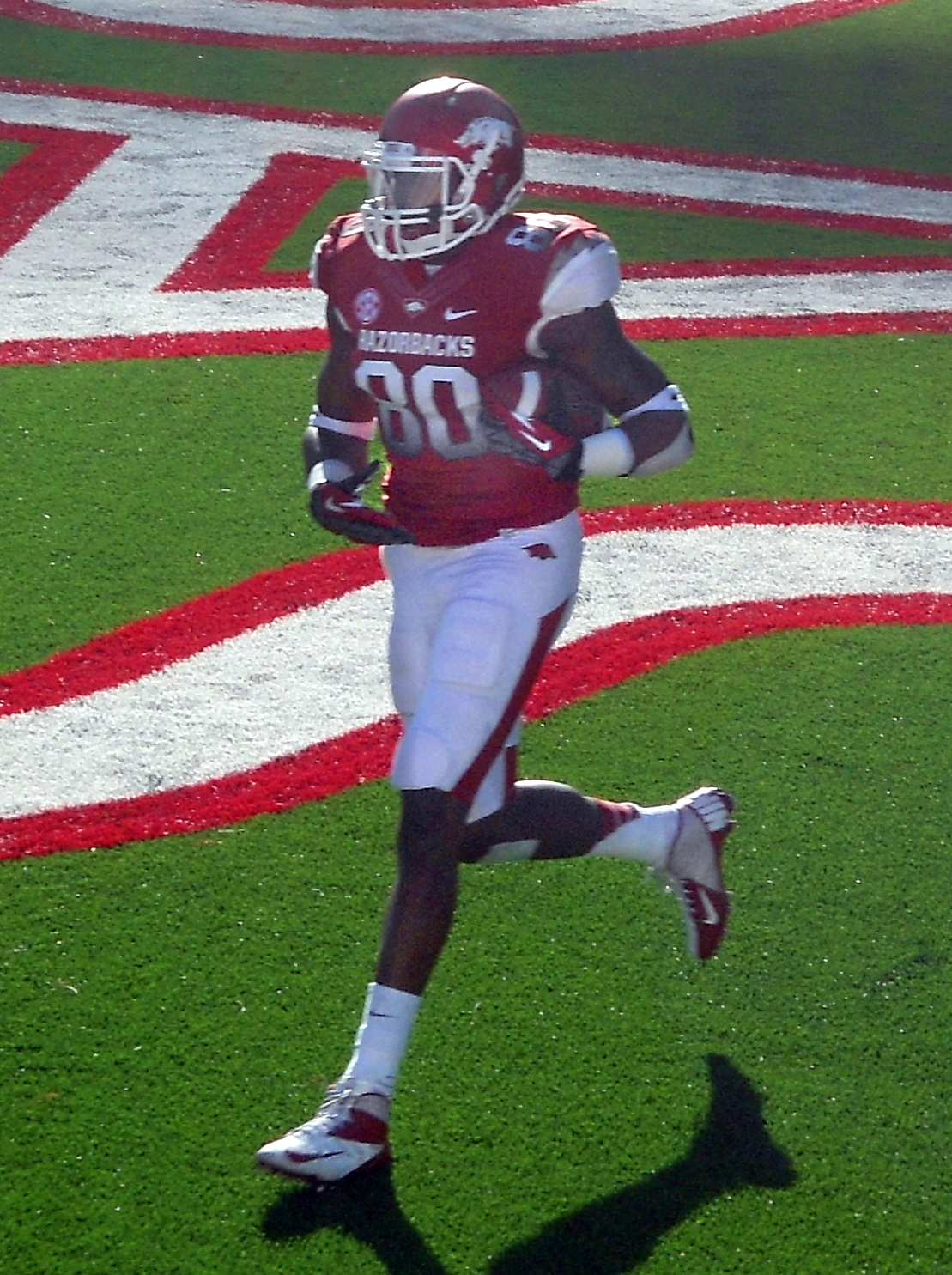 Chris Gragg plays in a NCAA football game for the Arkansas Razorbacks vs the ULM Warhawks in War Memorial Stadium, Little Rock, AR